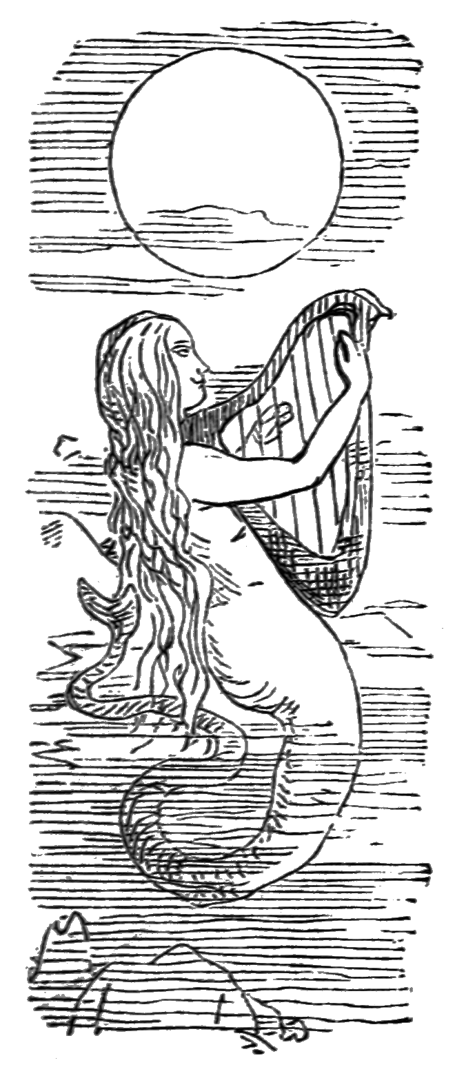 Becky Sharp as a "syren", a man-killing mermaid. An untitled image from the novel. The number indicates the Djvu page number of the Wikisource transclusion.